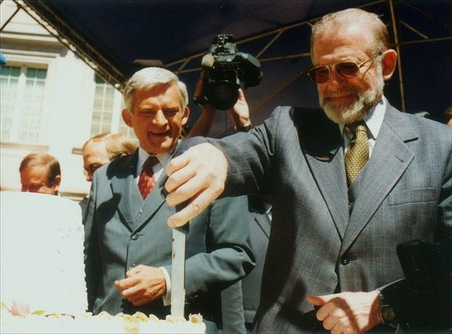 Jerzy Buzek (b. 1940), Polish politician and Bronisław Geremek (1932-2008), Polish historian and politician